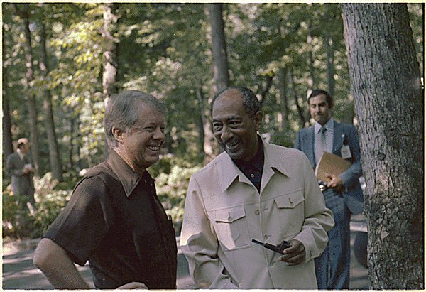 President of Egypt Anwar Sadat and Jimmy Carter meet at the beginning of the Camp David Summit. Seen here on September sixth nineteen seventy eight